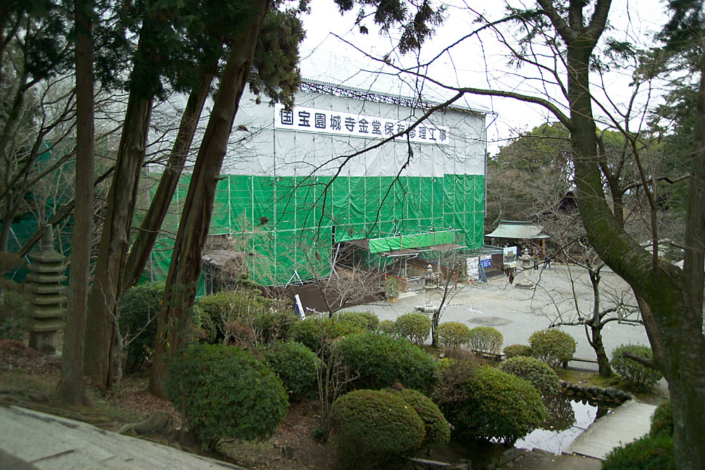 This building is the kondō 金堂 at Mii-dera, a Buddhist temple in Otsu, Shiga Prefecture, Japan. Unfortunately, the building is covered by a shroud during renovations. I took the photo and contribute my rights in it to the public domain; individuals and organizations retain rights to images in it.